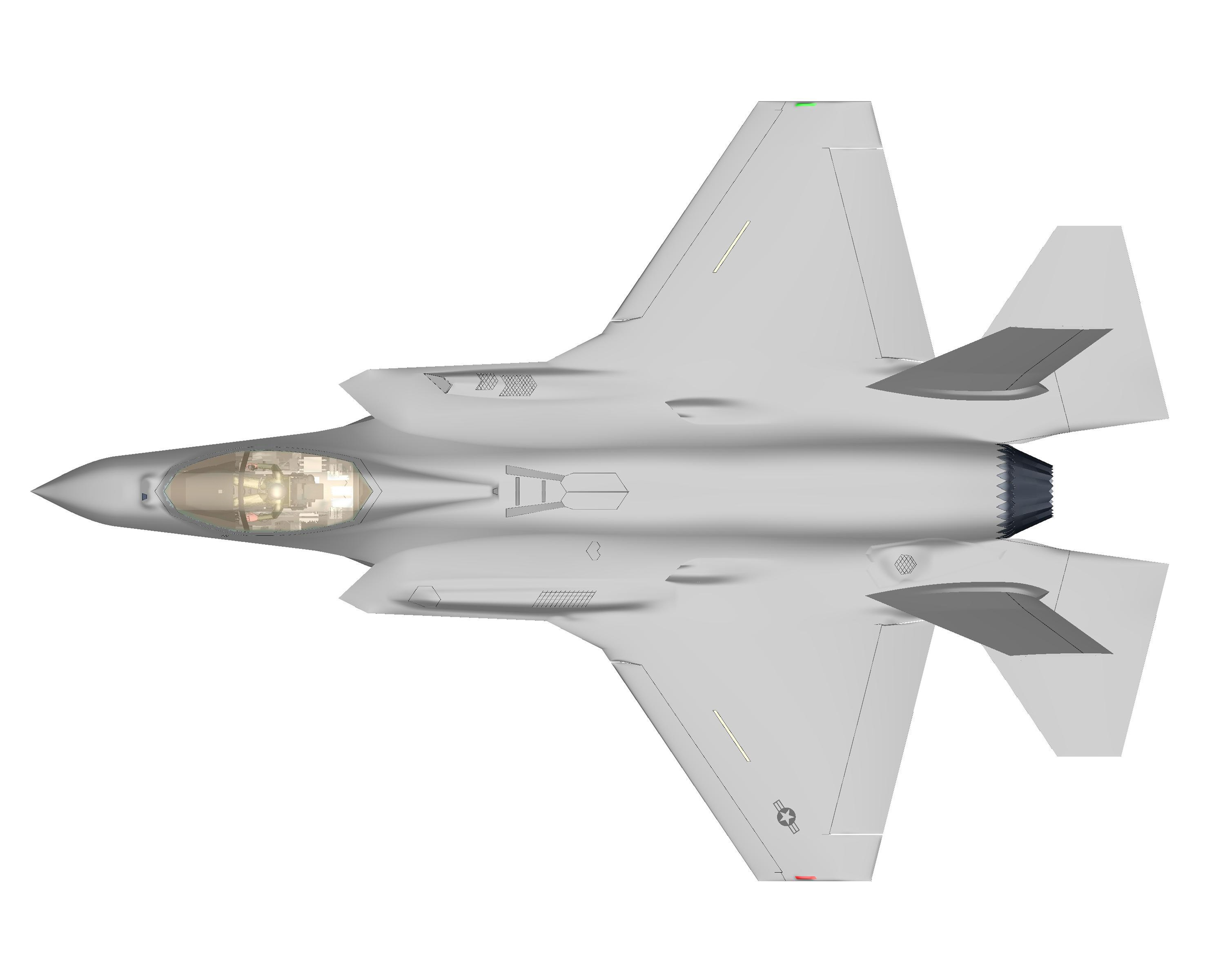 This is a image of F-35 A Joint Strike Fighter